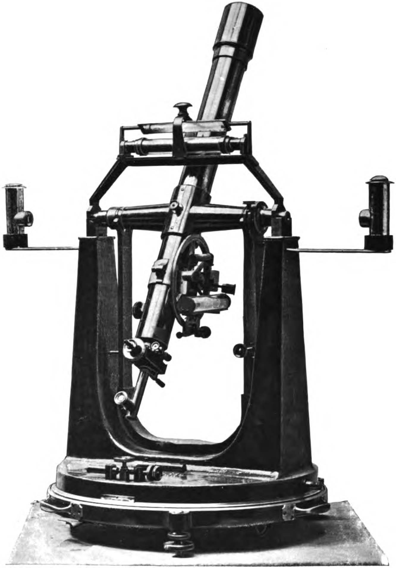 Plate XXXV of 1898 publication called Maryland Geological Survey Volume Two. Caption:Astronomical transit and zenith telescope